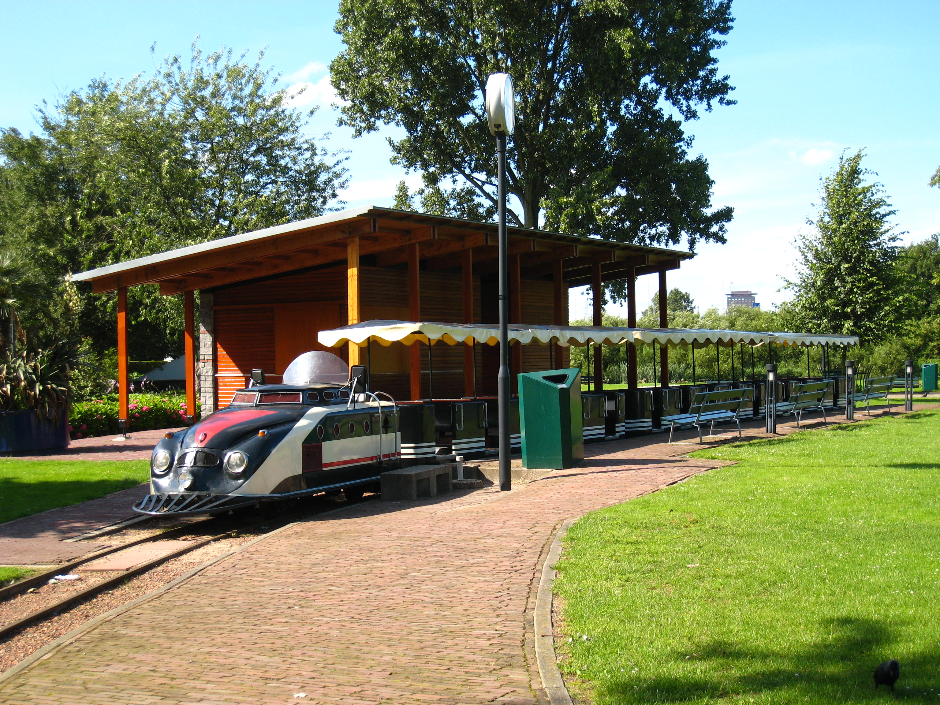 Amstelpark, Amsterdam, Holland. The Amstelpark is a park originally created for the 1972 Floriade.